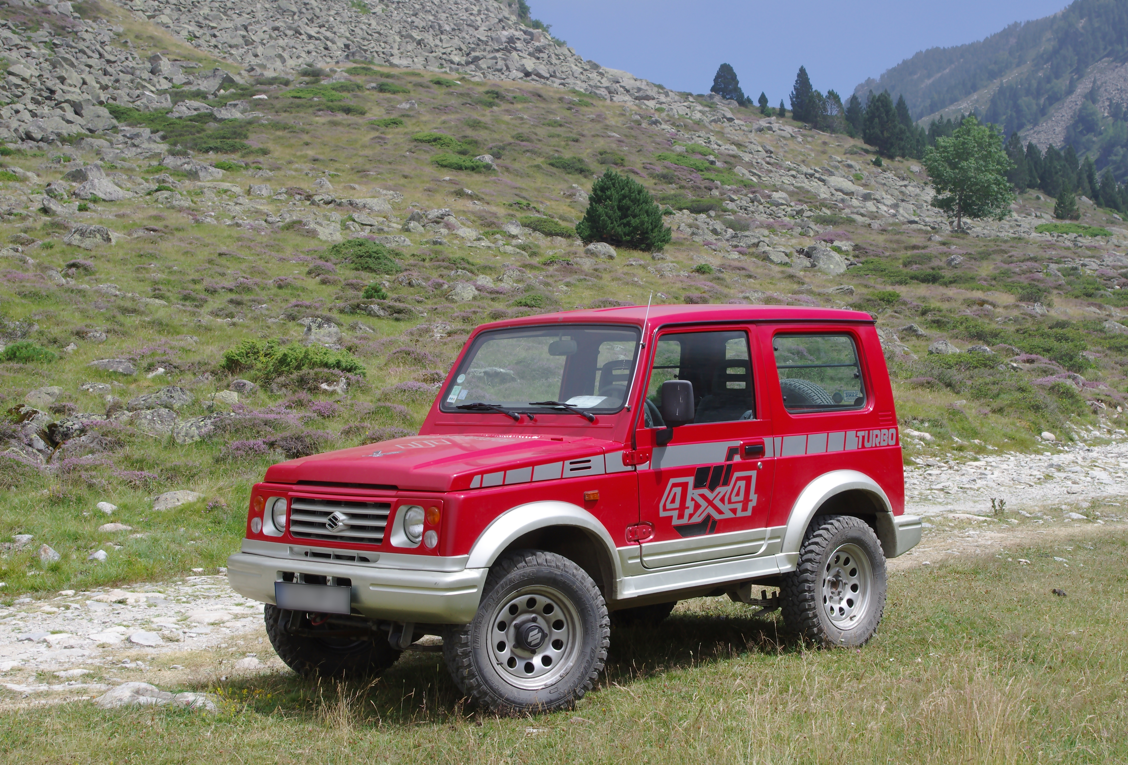 4WD, Suzuki Samurai, 1.9 TD, Pyrénées, France